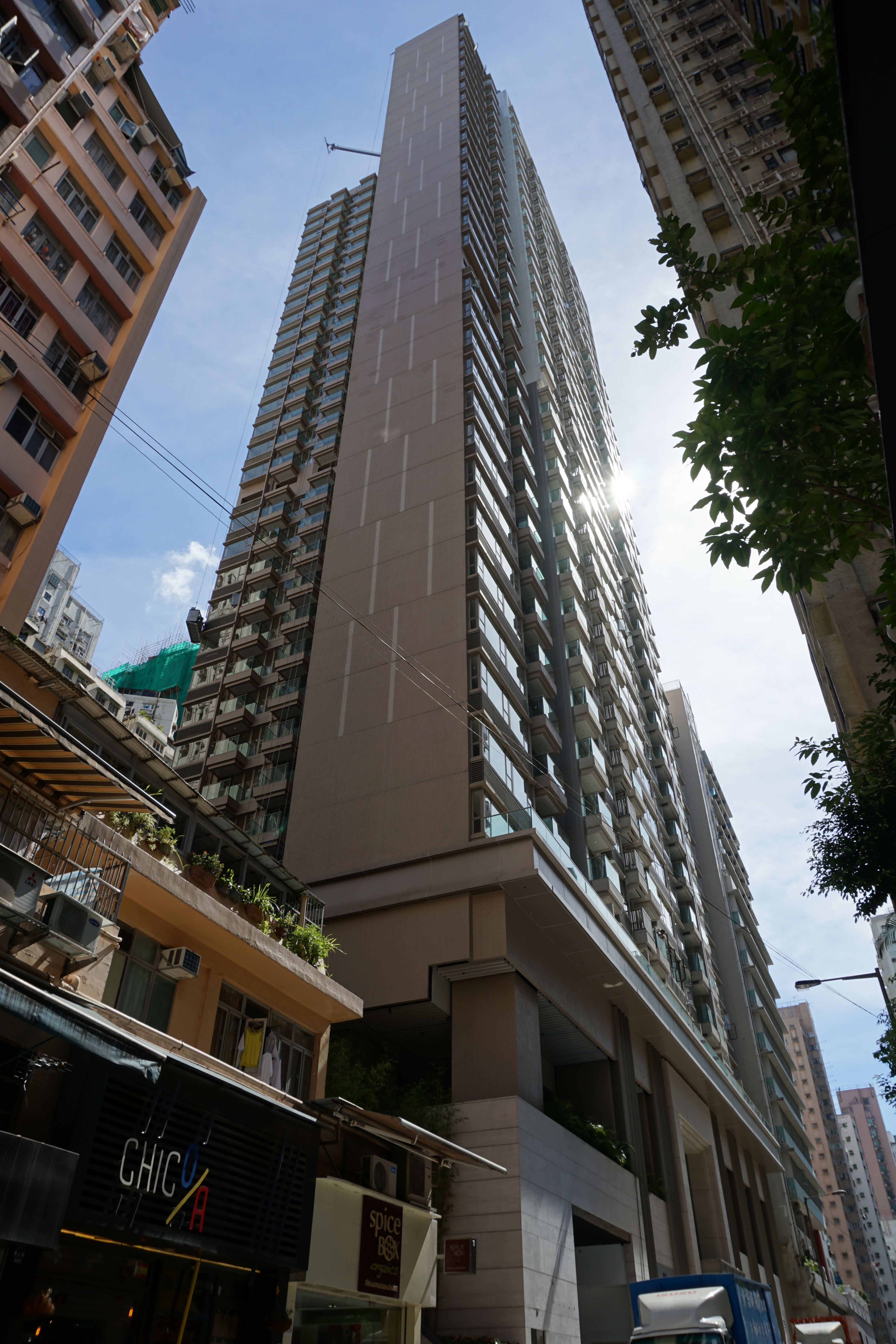 The Nova in Sai Ying Pun, Hong Kong.